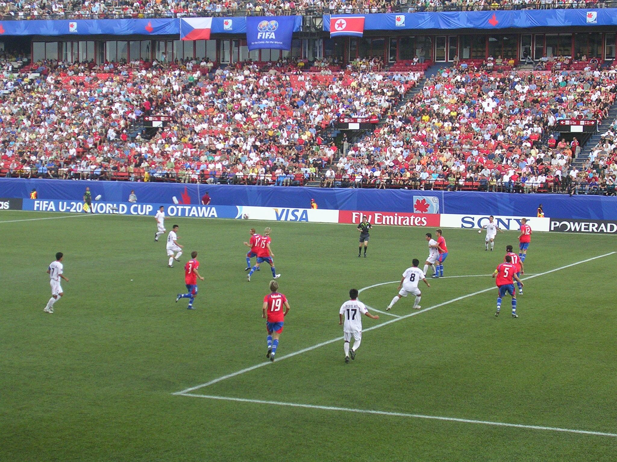 CZE v PRK FIFA U20 WC Game 2007